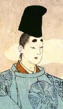 66th Tennō Ichijō (一条天皇 Ichijō-tennō), who is presumed to have reigned Japan from 986 till 1011.